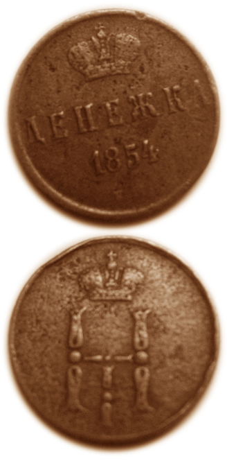 Cuprum coin, 1854